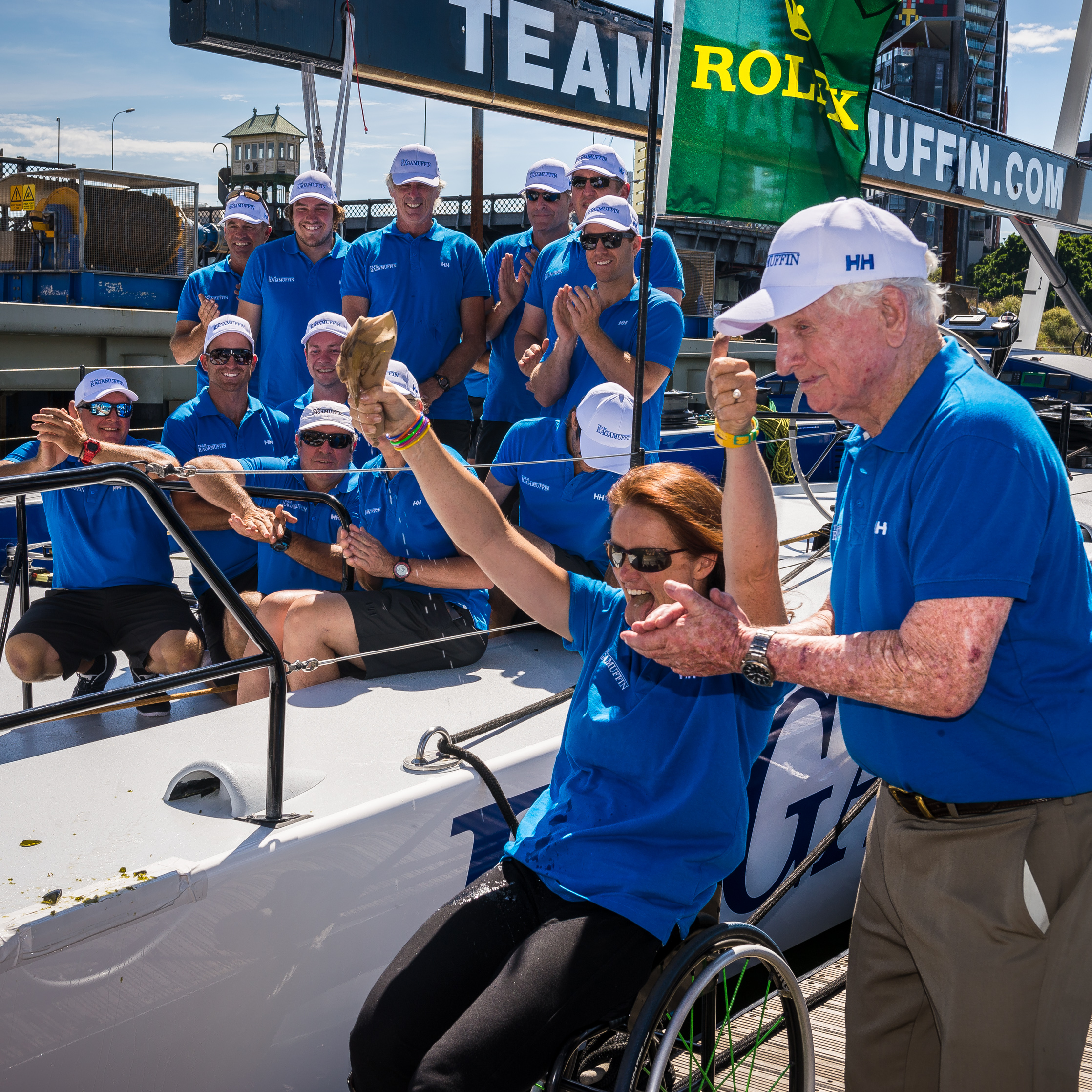 Owner and skipper, Syd Fischer (R), 87 and Liesl Tesch, a paralympic sailor, officially christen the new super maxi, Ragamuffin 100 in 2014